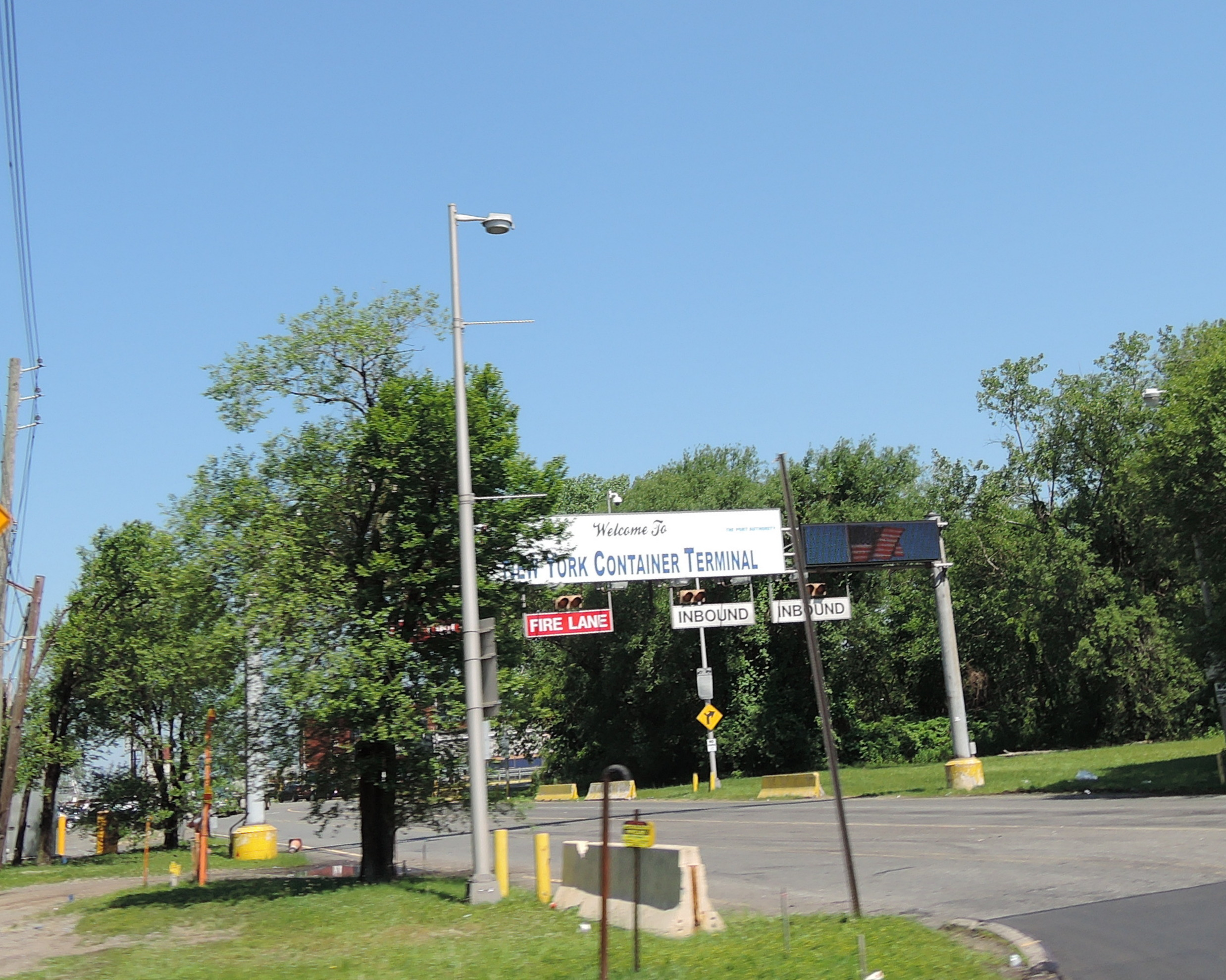 Looking northwest at western gate of container terminal on a sunny day.